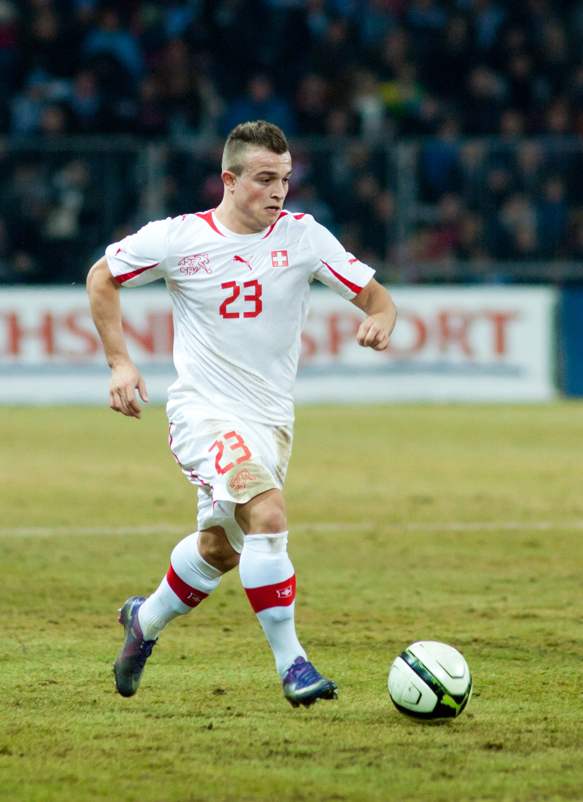 The making of this document was supported by Wikimedia CH. (Submit your project!) For all the files concerned, please see the category Supported by Wikimedia CH. Switzerland vs. Argentina, 29th February 2012